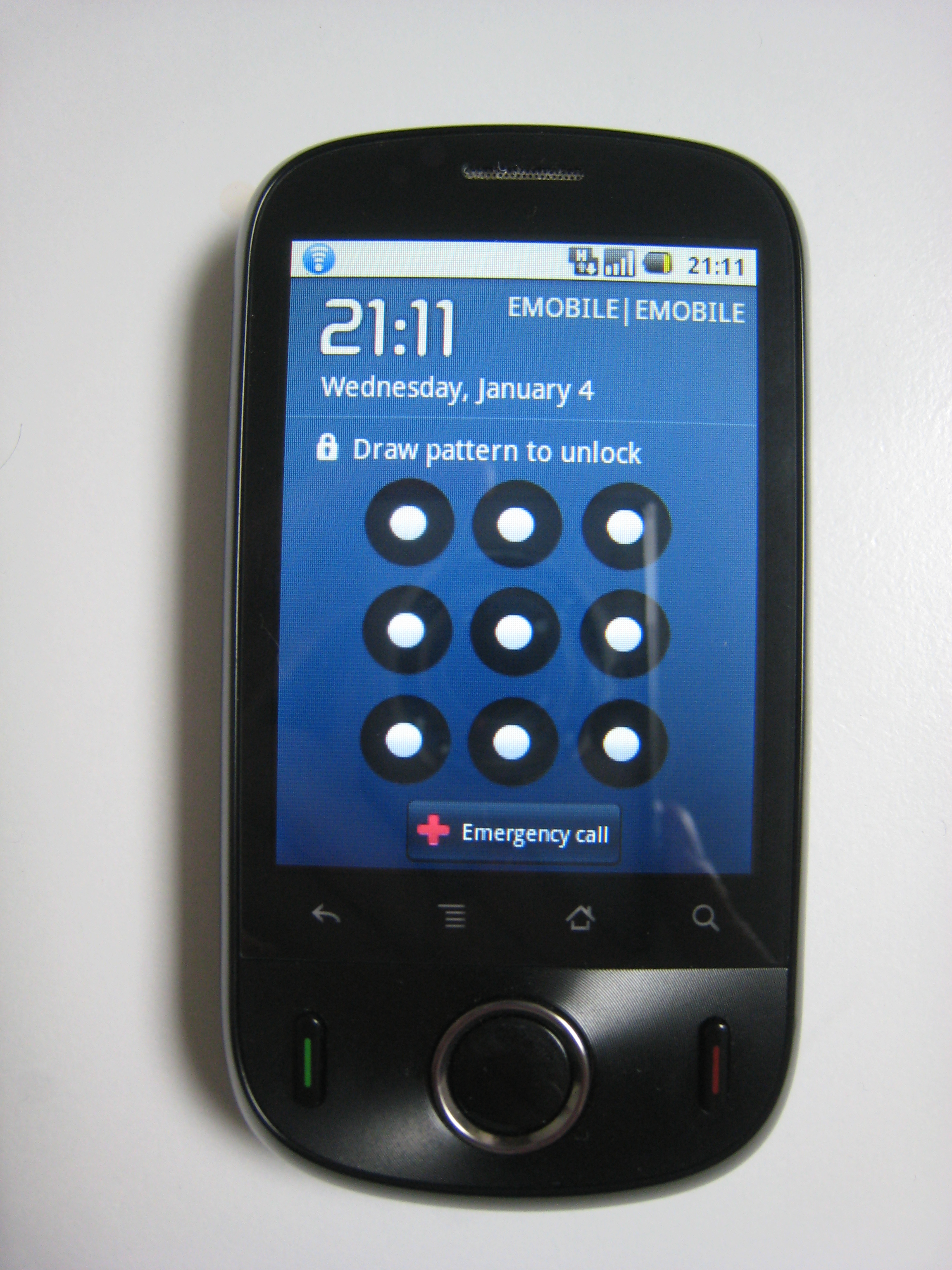 Huawei IDEOS U8150 front